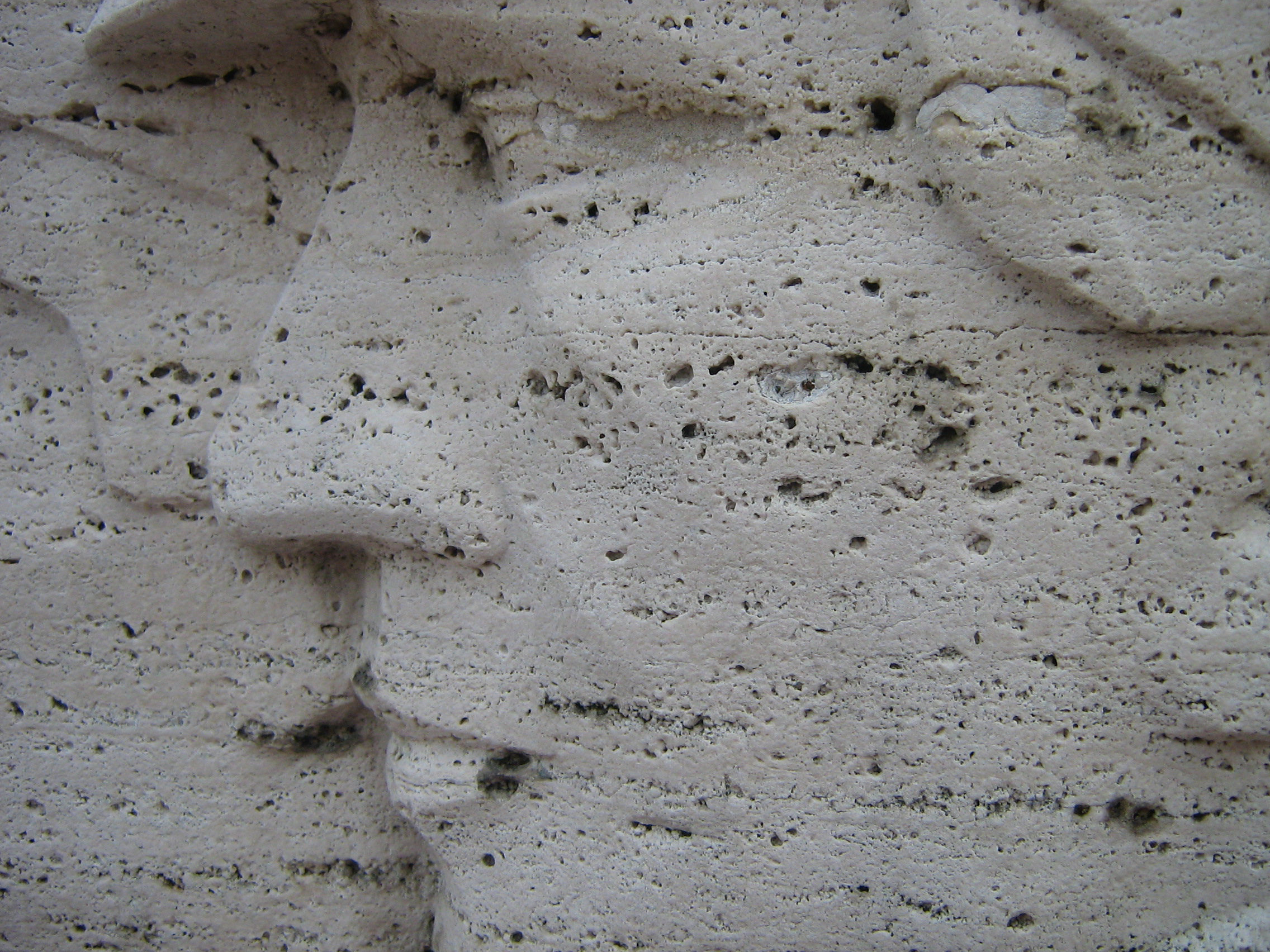 Detail of travertine relief "Latvian riflemen", part of Monument of Freedom